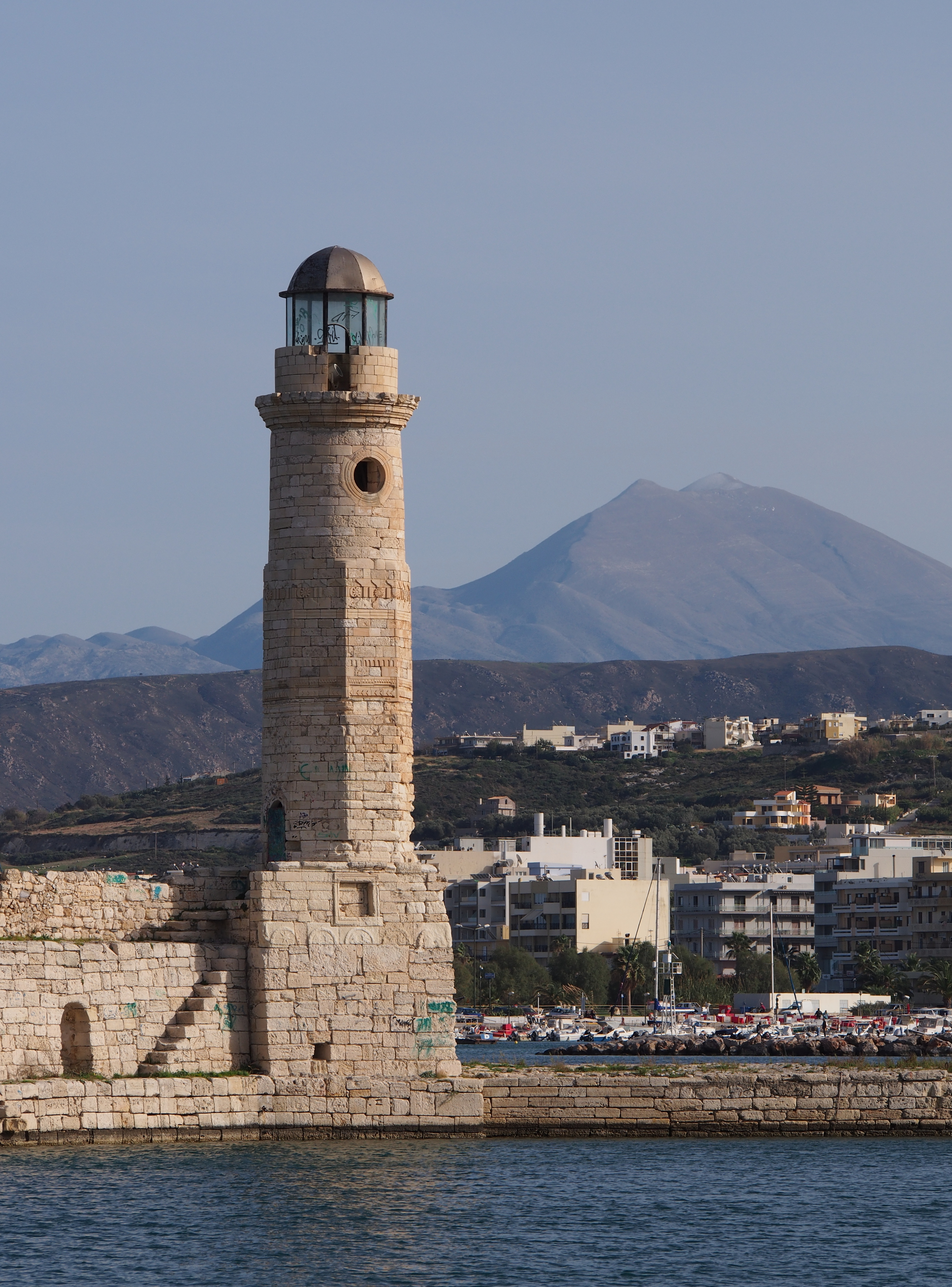 The lighthouse of Rethymno and Psiloreitis